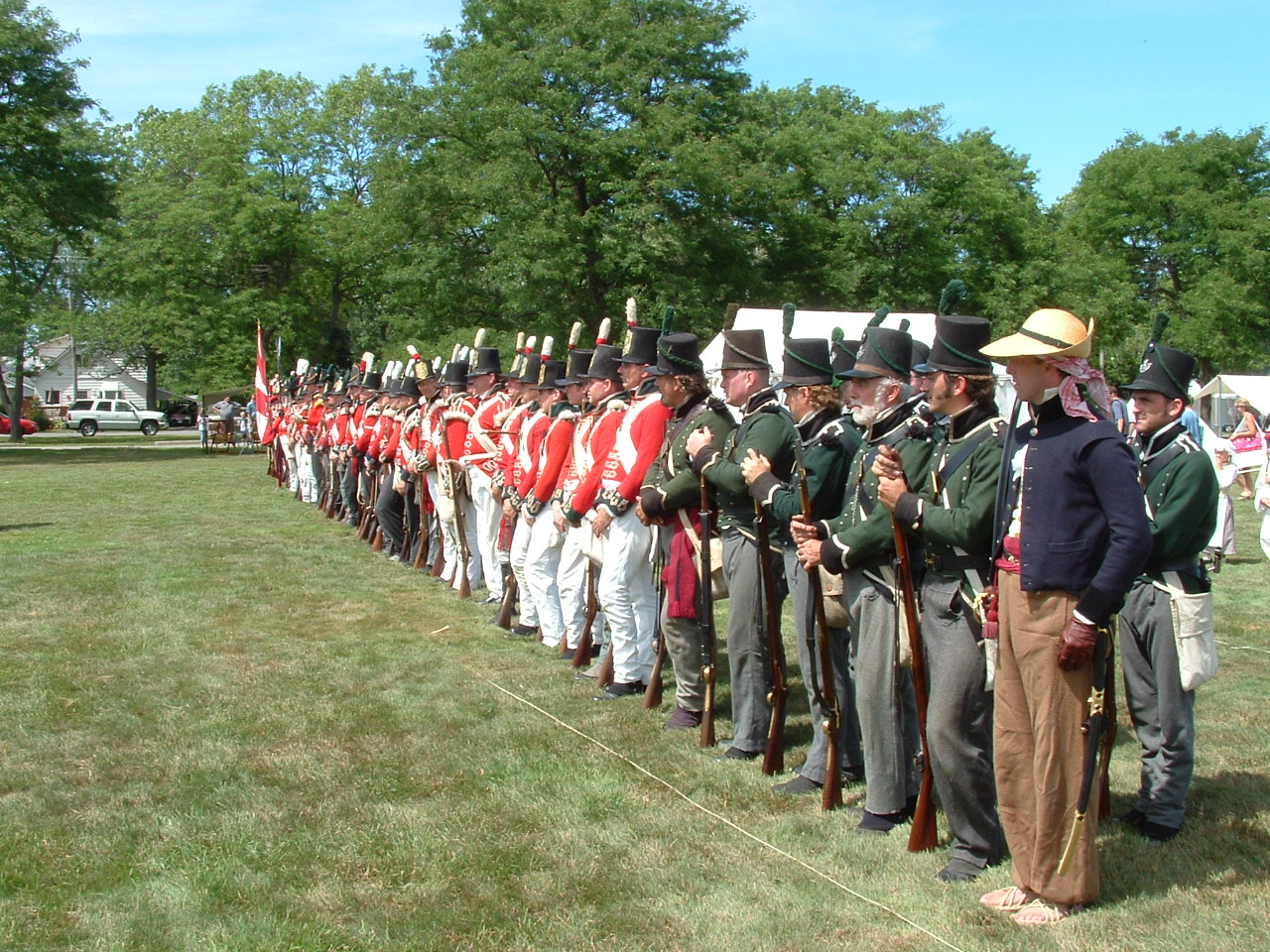 People engaging in reenactment of battles at Fort Erie, Ontario, Canada